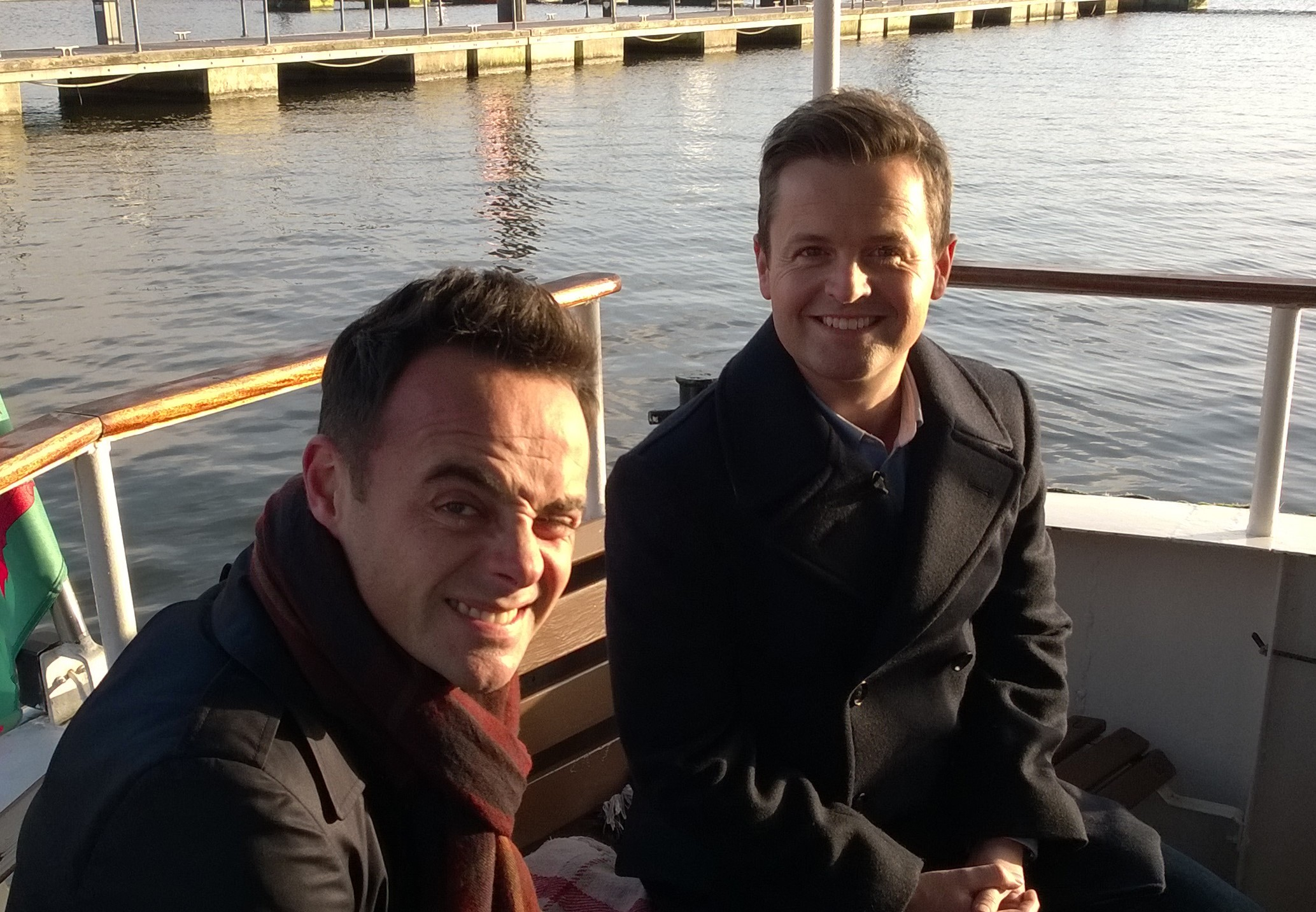 Cropped image of Anthony McPartlin and Declan Donnelly (Ant and Dec) in Cardiff Bay.